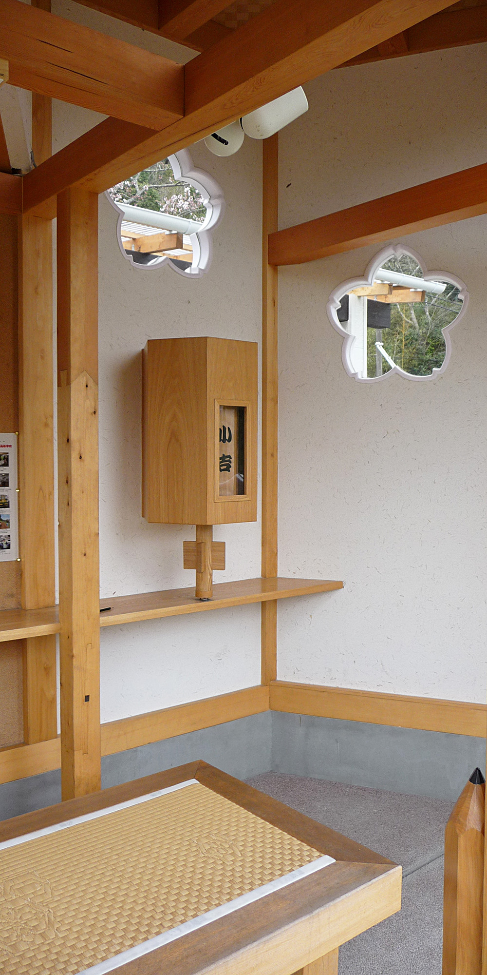 Higashi-Fusamoto Station waiting room.